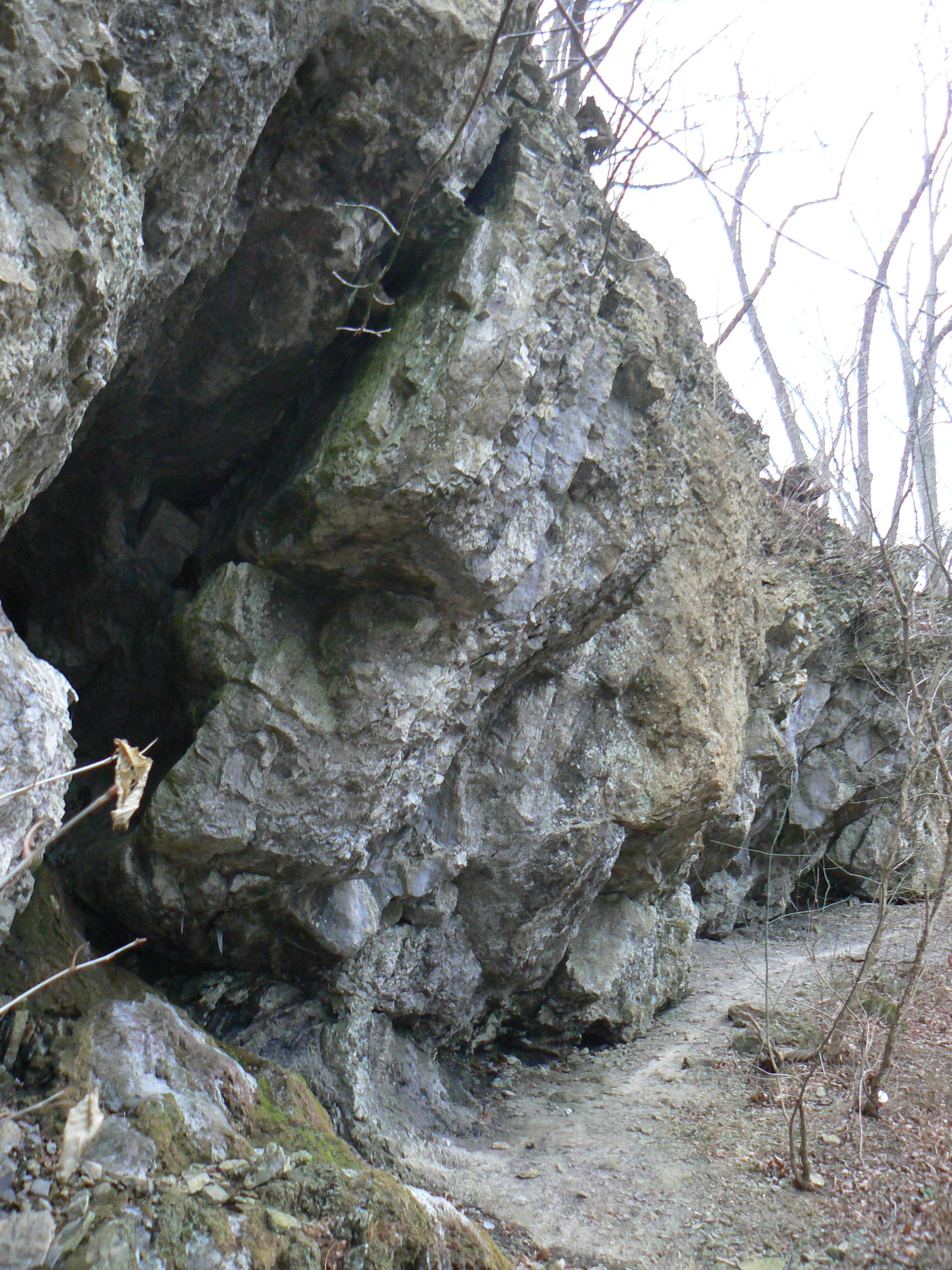 Looking north-west along a thrust sheet of Conococheague Limestone near the community of Fairview in Washington County. In the foreground the rock's most noteable feature can be seen: a narrow crevice extending some 30'. A spring can be found emerging from the crevice during all seasons.